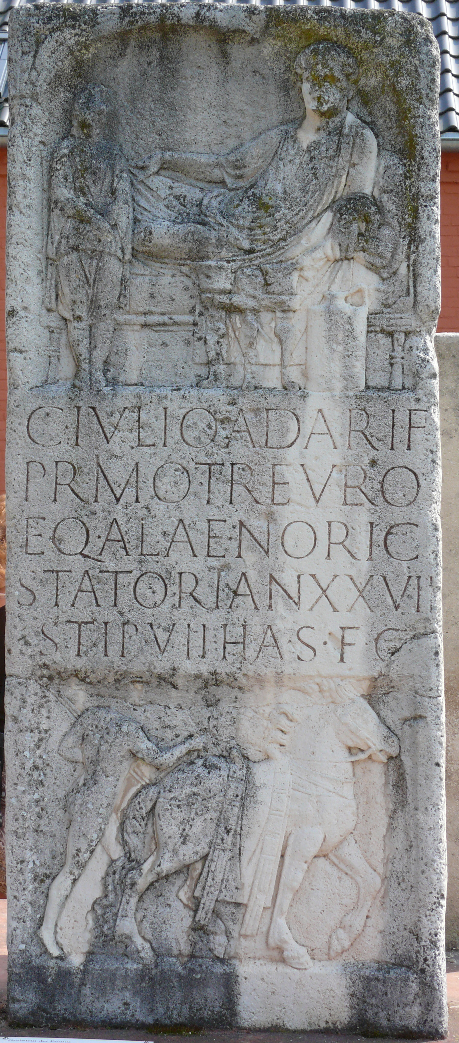 Photo taken in the Archeological Park Xanten. Tombstone of Primus. For the Latin inscription see German version. The Trevier Gaius Julius Primus, son of Adarus, horseman and aide-de-camp of the Ala Noricorum, 27 years old, 7 years of service. The heir has had (this tombstone) erected. The unit in which Primus served was stationed in Burginaium (Altkalkar). Primus came from the area around Trier and served the cavalry as an aide-de-camp in his unit's staff. He was a Roman citizen as his trifold name suggests. In the bottom scene we can see a stable boy with his horse and a lance. In the upper scene we see Primus at a meal.